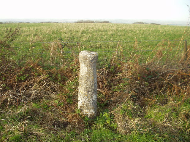 Cross and Hand. A lot of legend woven around this stone but is thought to be from a Roman Temple put here to mark a boundary